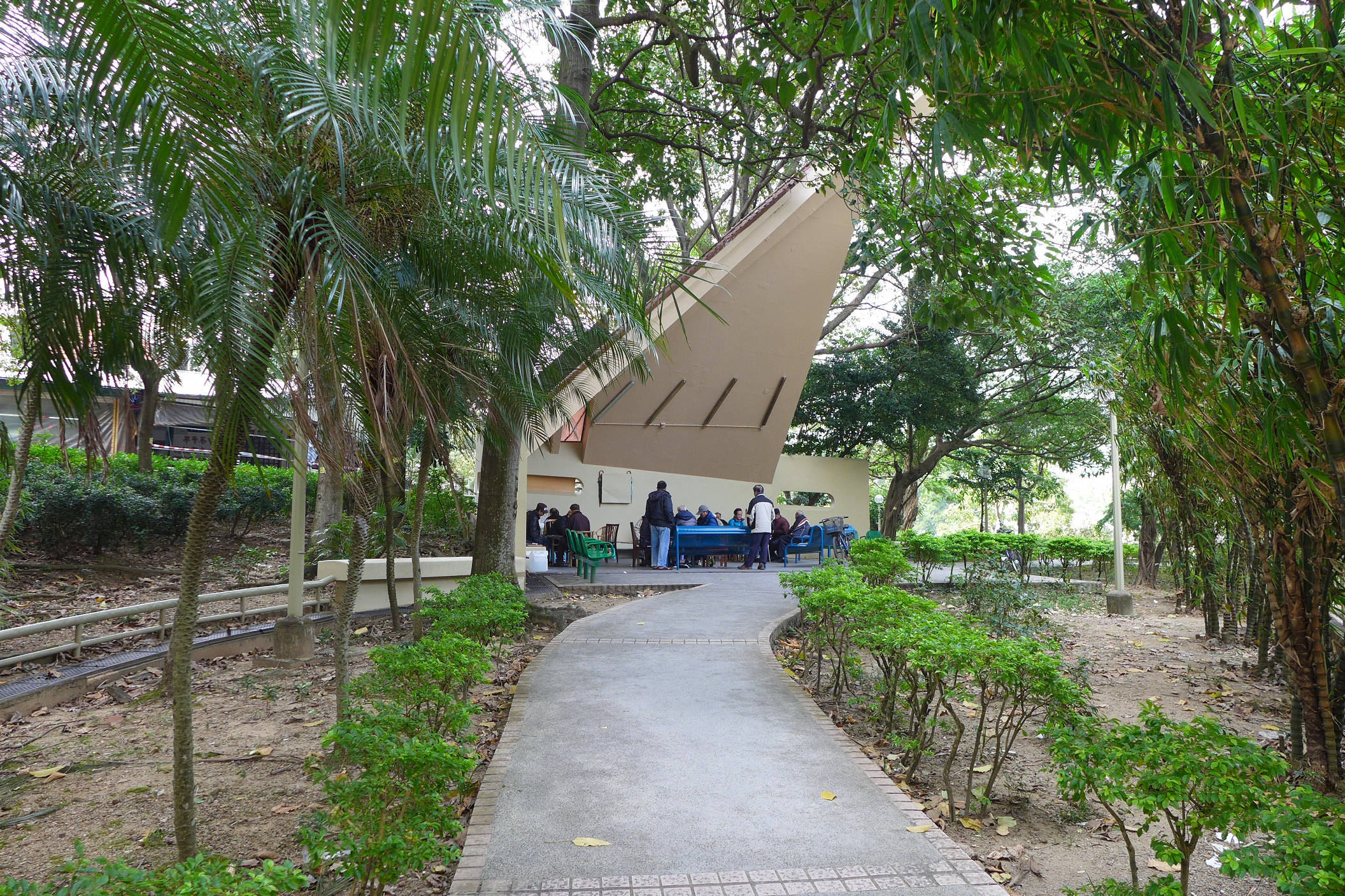 Kwong Fok Estate Pavilion